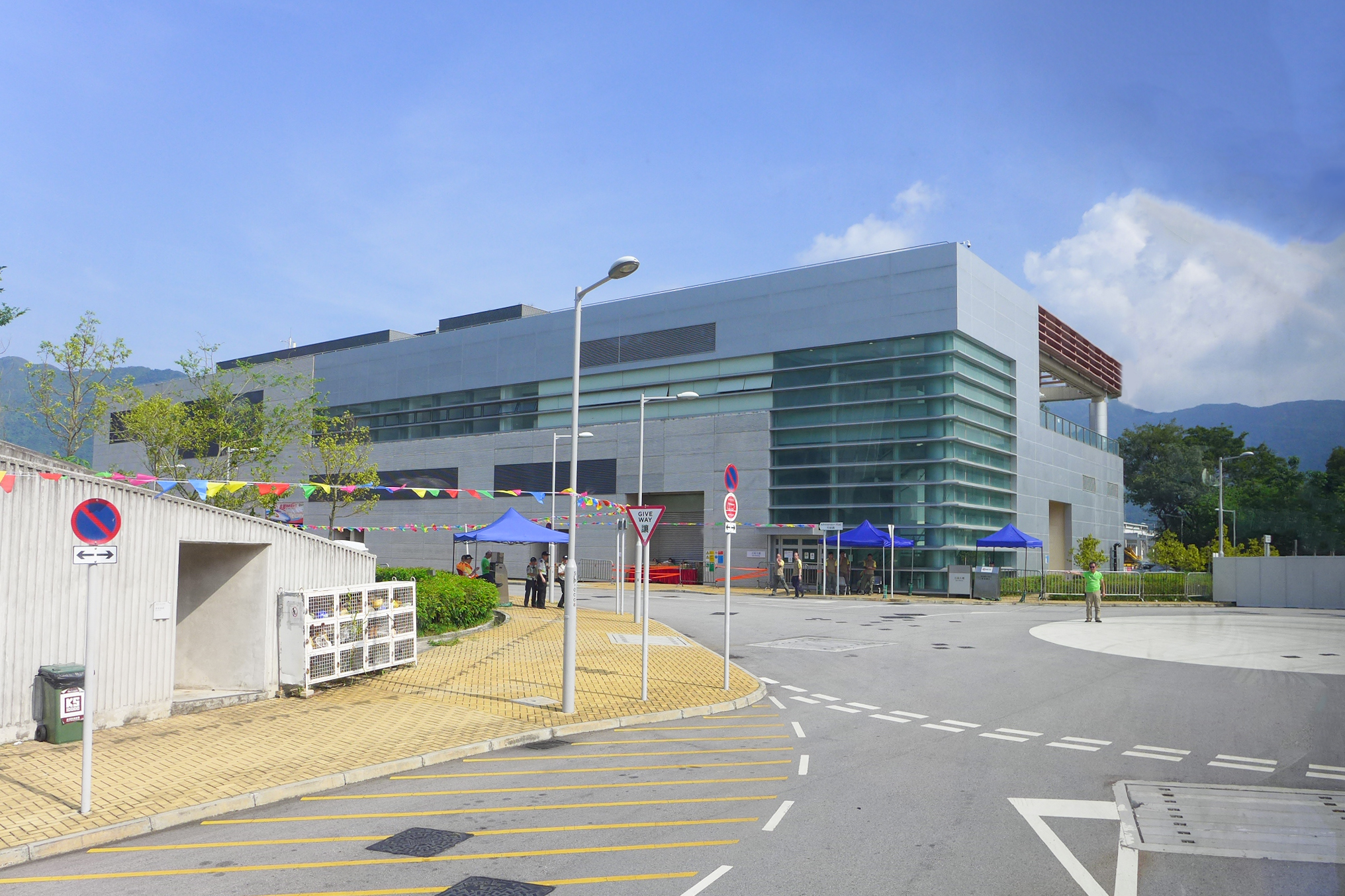 Shek Kong Stabling Sidings Office